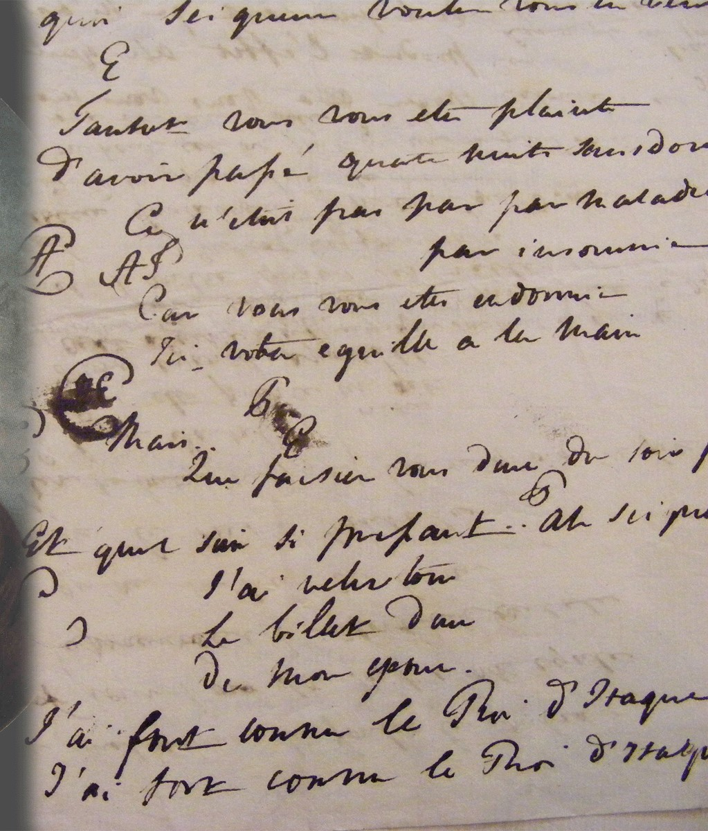 Belle van Zuylen (Isabelle de Charrière): manuscript Pénélope. Bibliothèque de Neuchâtel, manuscript 1353.